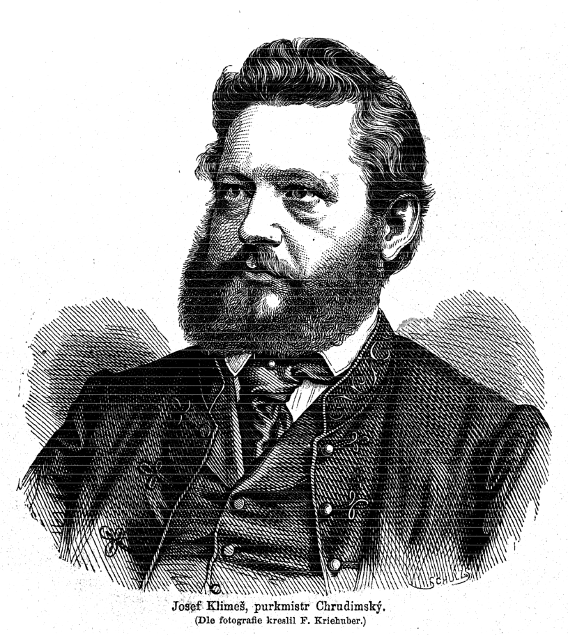 Portrait of Josef Klimeš (1828-1900), Czech farmer and politician, mayor of Chrudim.